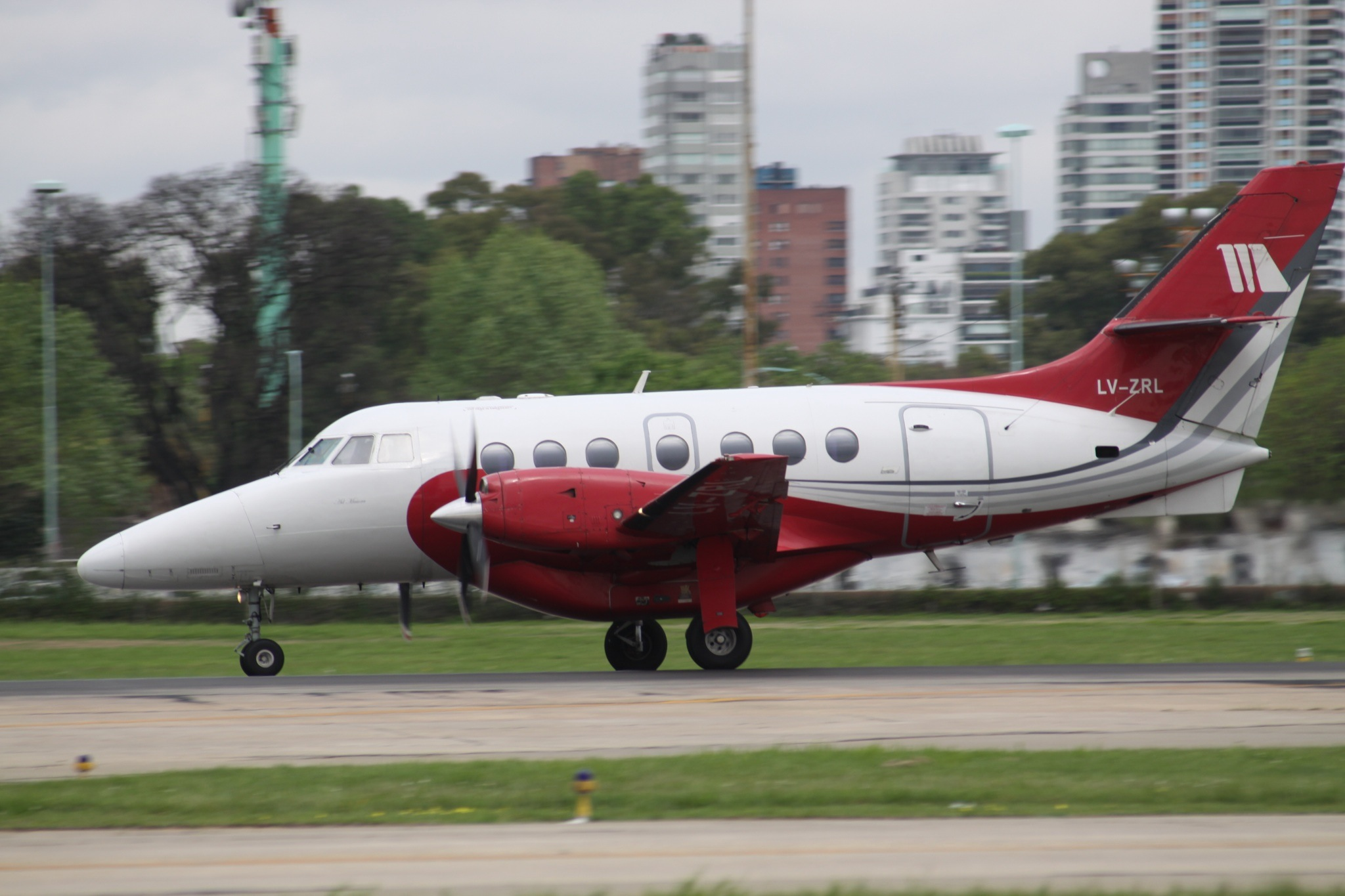 At Buenos Aires Aeroparque